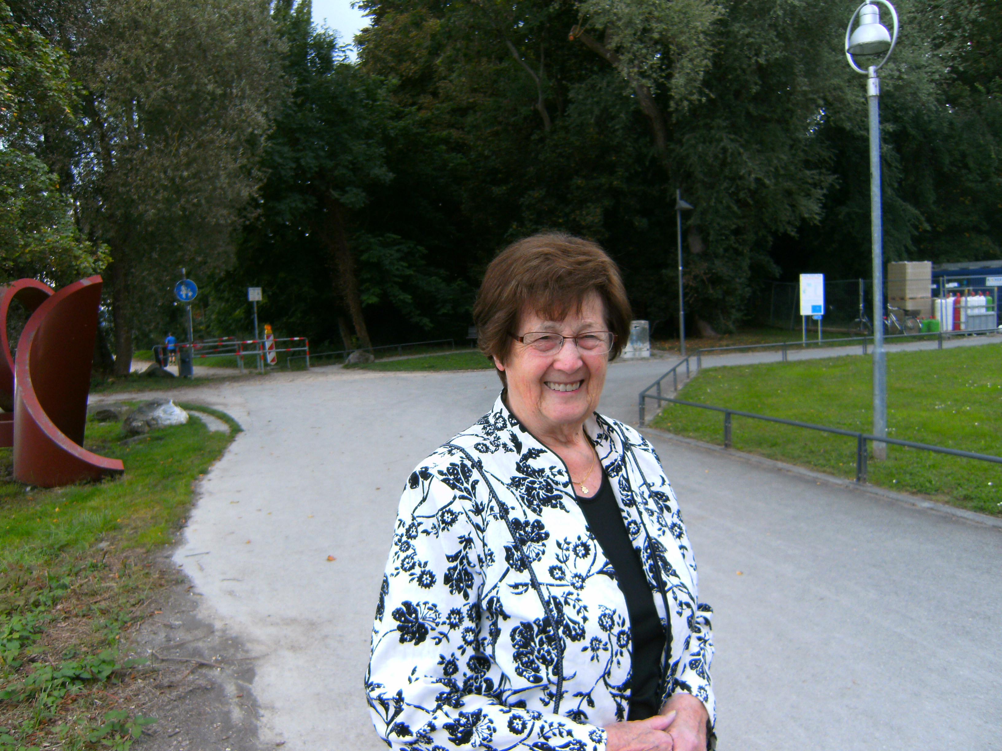 Rosemarie Banholzer, author in the alemannic language of Lake Constance and in German language at Wendelgardweg (street) in Konstanz in 2014.